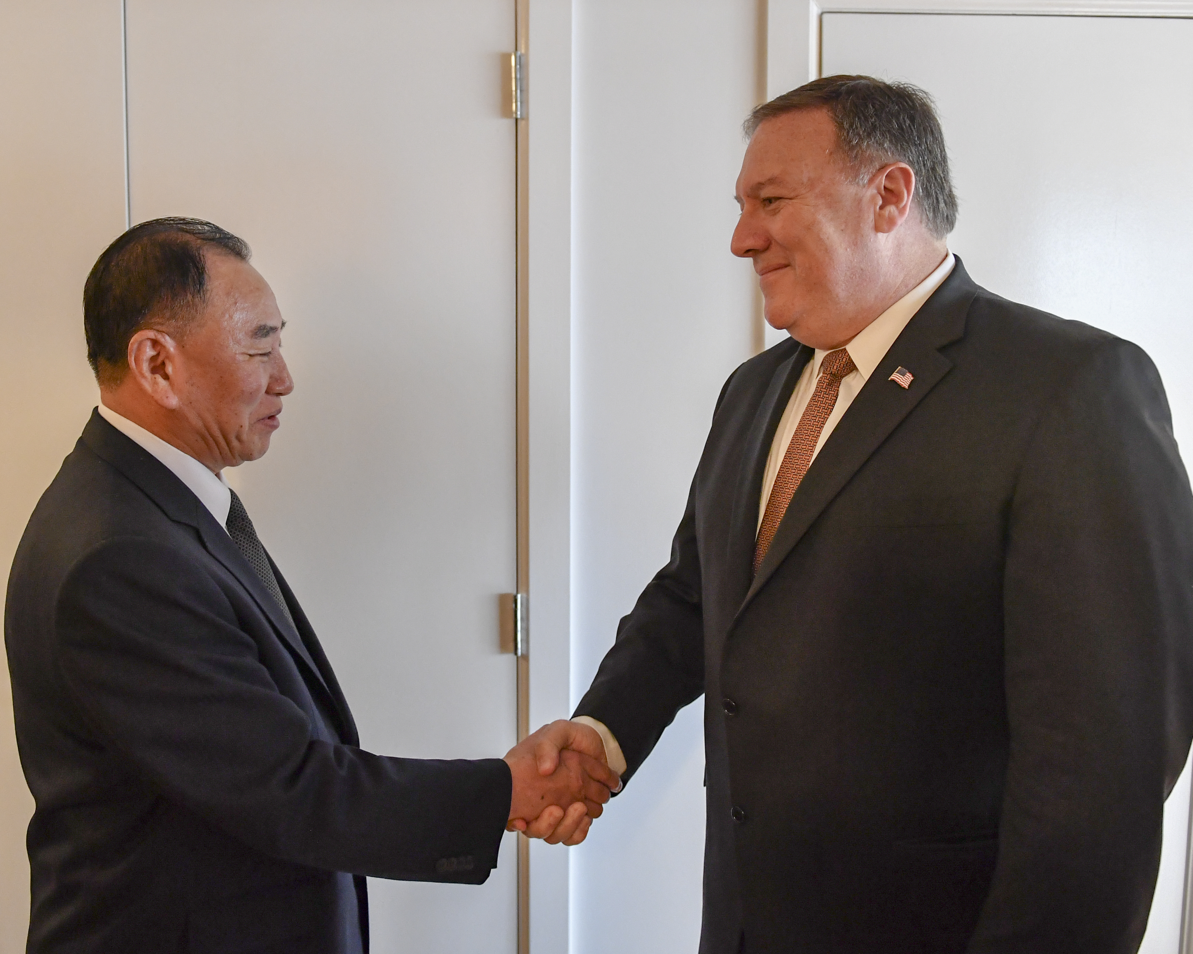 U.S. Secretary of State Mike Pompeo greets DPRK Vice-Chairman of the Central Committee Kim Yong Chol before a DPRK meeting in New York City on May 31, 2018. [State Department photo/ Public Domain]